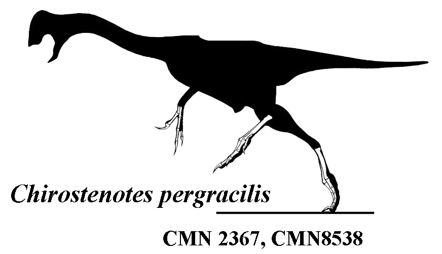 Skeletal reconstruction of Chirostenotes pergracilis showing the hands of specimen NMC 2367 and feet of NMC 8538.